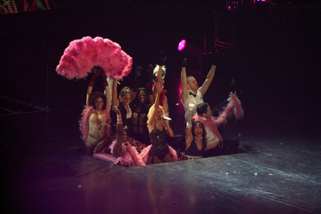 Christina Aguilera on her Back to Basics Tour performs at the Arena at Gwinnett Center in Duluth, Georgia on May 2, 2007.